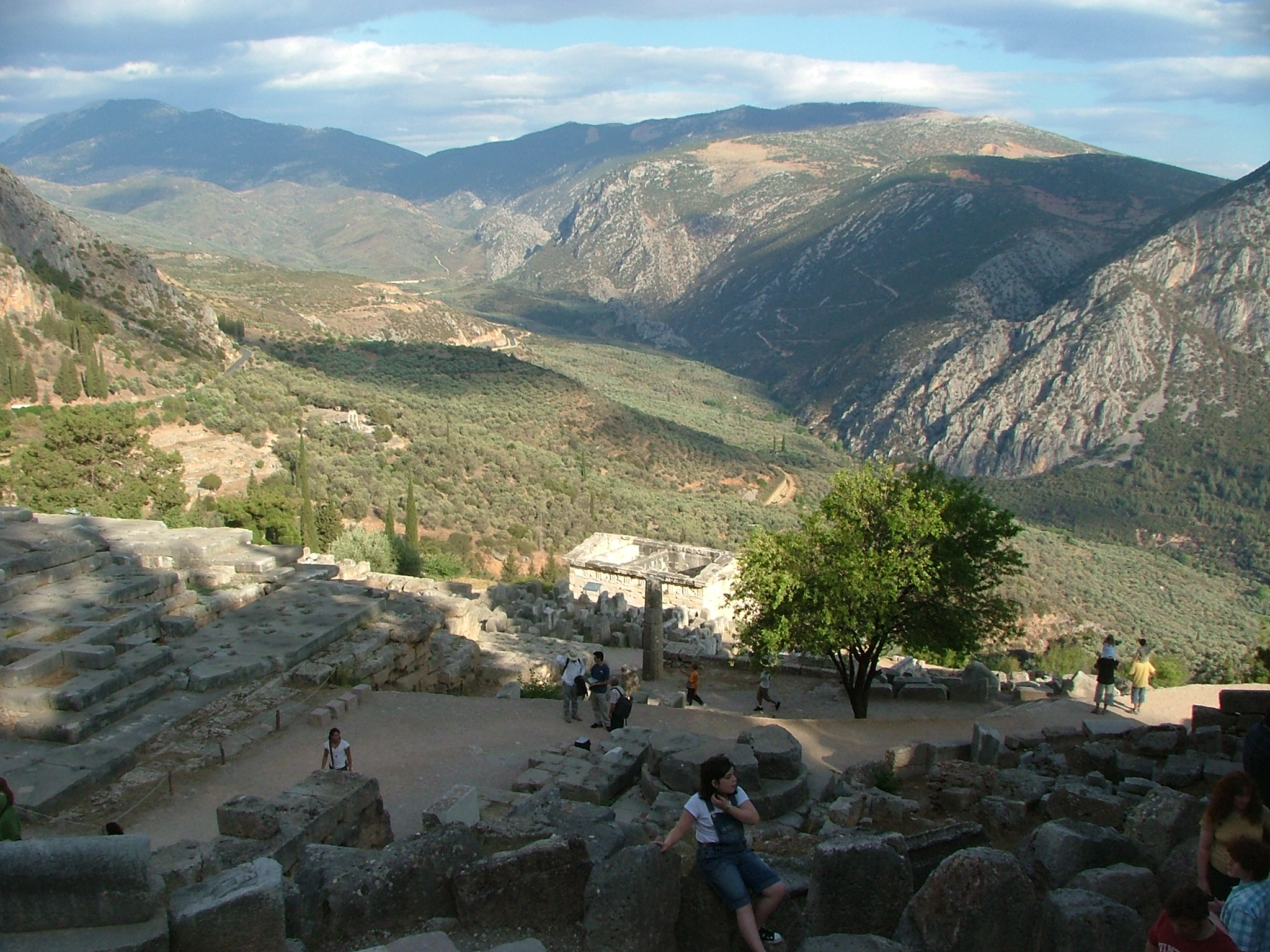 Delphi's valley, Greece